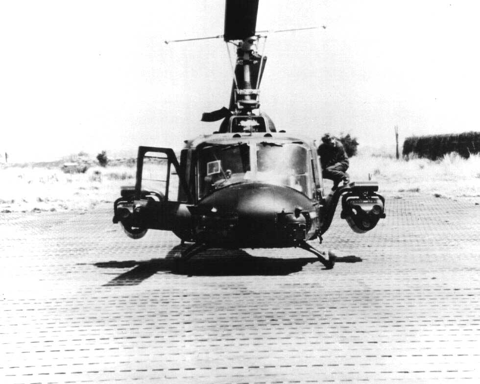 2 May 72 The TOW missile system in its airborne configuration (XM26 armament subsystem) became the first American-made guided missile to be fired by U.S. soldiers in combat. The first airborne TOWs had arrived in Vietnam on 24 April 72, six days after MICOM had received the initial deployment order. This was a notable achievement considering that the system was still in the experimental stage and there were only a limited number of complete subsystems available. The airborne TOW served in Vietnam until 1973.